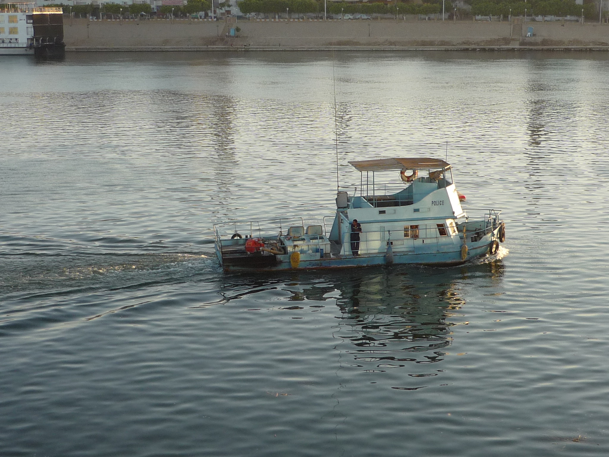 Police boat in Esna, Egypt